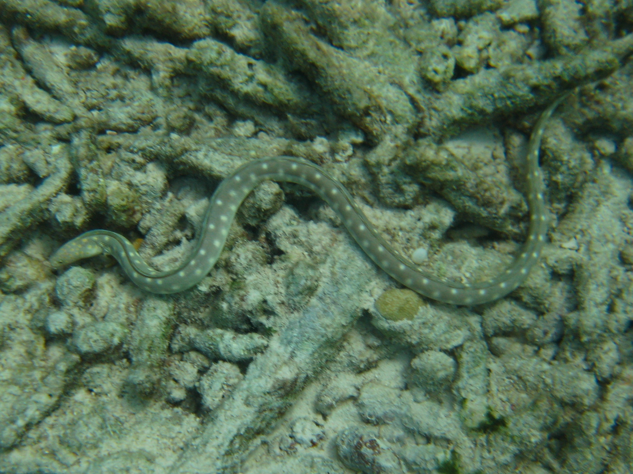 Sharp tail eel.}Hrvatski: Oštrorepa jegulja.